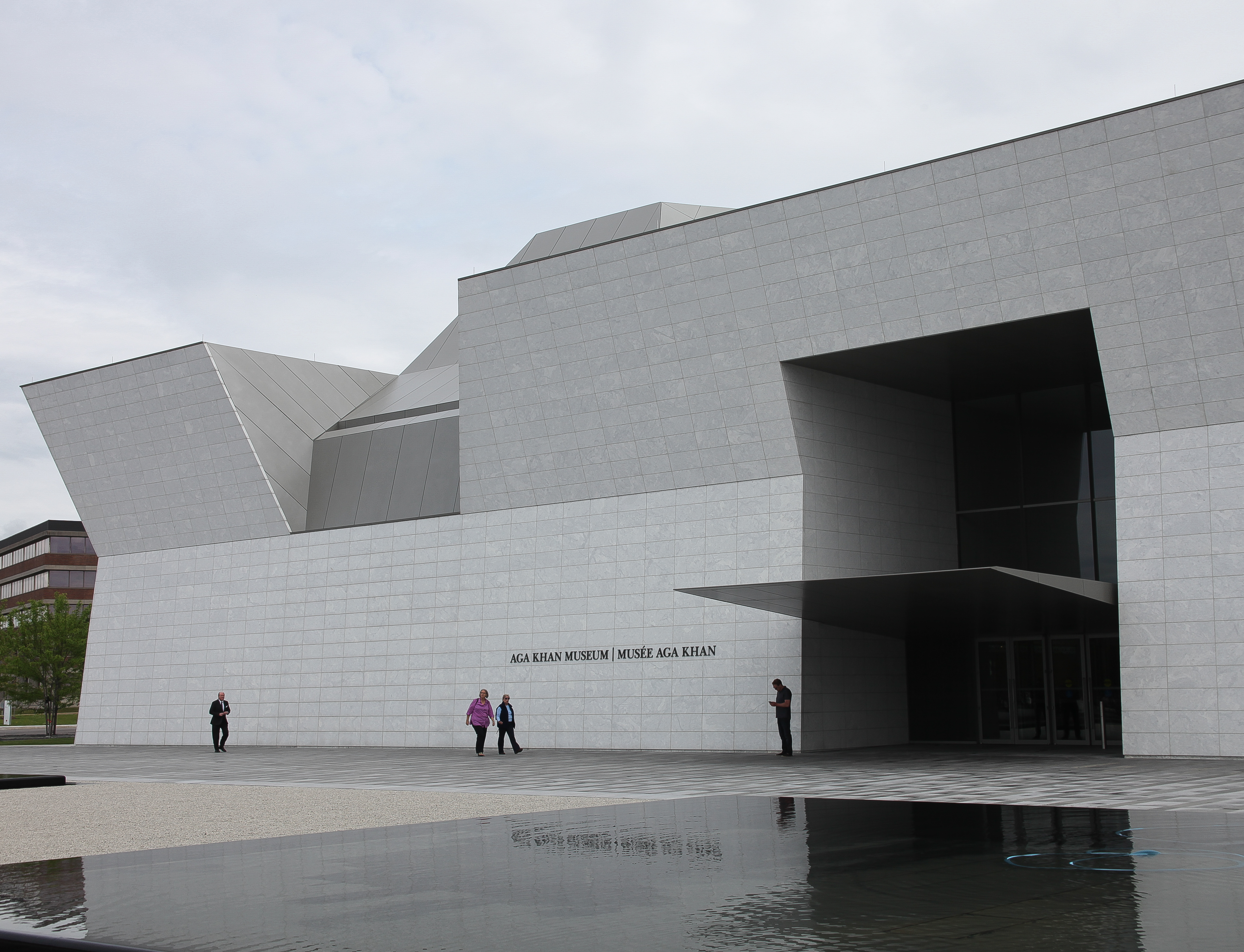 The Aga Khan Museum, designed by Fumihiko Maki